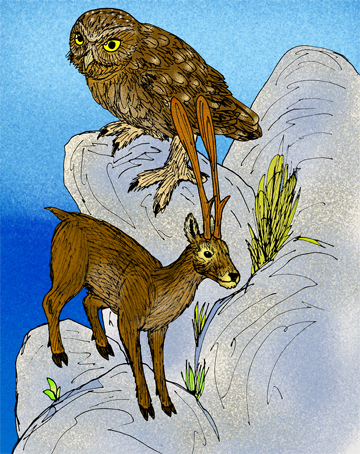 My reconstruction of one species of Cretan Pygmy Deer, Candiacervus ropalophorus, shown here with the giant Cretan Little Owl, Athene cretensis. (C) Stanton F. Fink